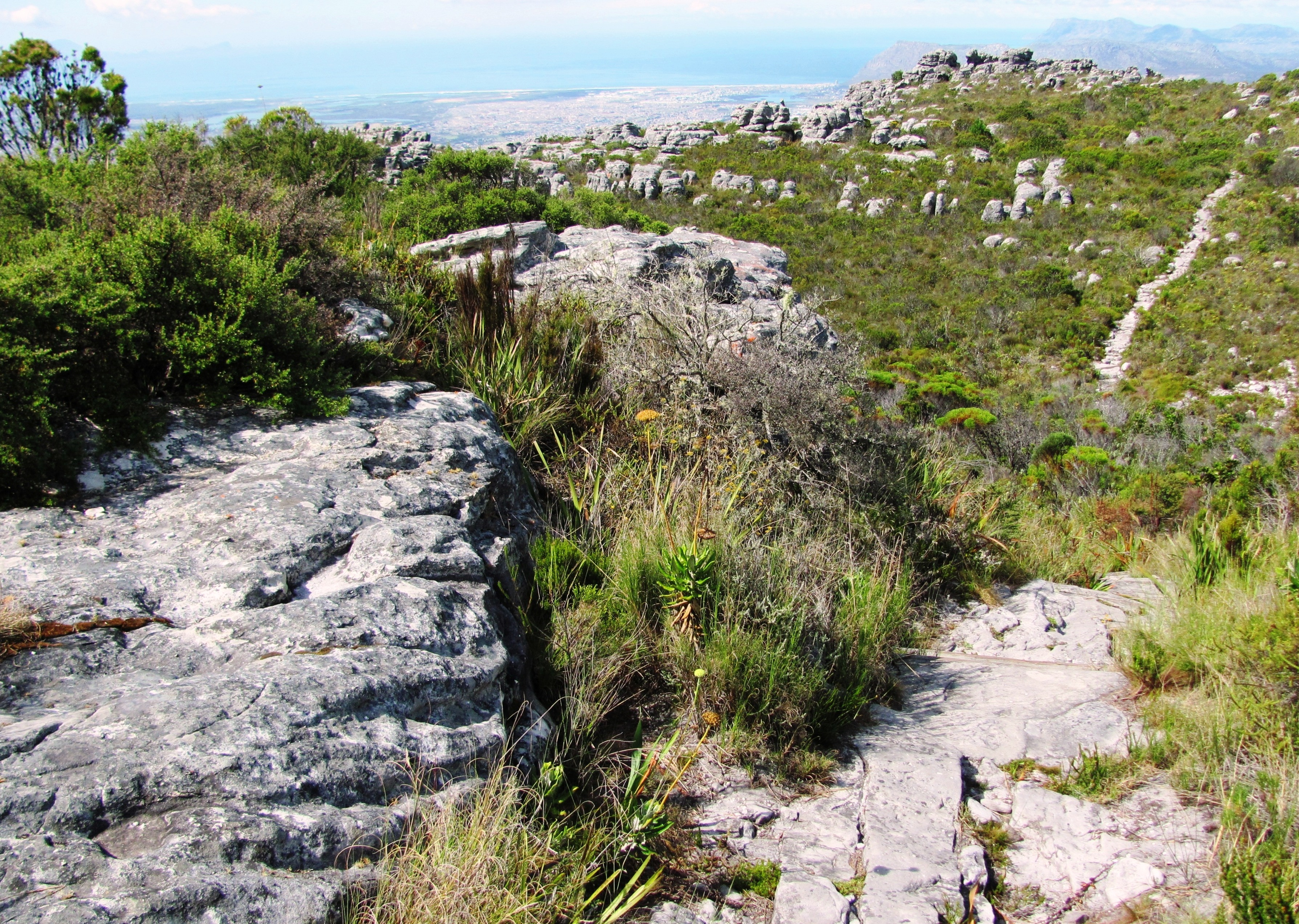 Open rock and Peninsula Sandstone Fynbos vegetation on top of Table Mountain - Cape Town, South Africa.